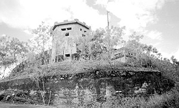 The fort on Coyotepe hill, near Masaya, Nicaragua during the Nicaraguan Civil War and the United States occupation, circa 1912.